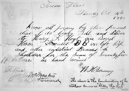 Billy the Kid (1859-1881) presented Henry Hoyt with a sorrel horse, and wrote a bill of sale for 75 dollars to make it look like an actual purchase. No money changed hands. Witnessers were Howard and McMasters, the proprietors of the store in Tascosa. (Sources: Michael Wallis: Billy the Kid: The Endless Ride, p. 224, and Henry F. Hoyt: A Frontier Doctor) Text: "Tascosa, Texas, Thursday, Oct 24th 1878. Know all persons by these presents that I do hereby sell and deliver to Henry F. Hoyt one Sorrel Horse branded BB on left hip and other indistinct branded on shoulders, for the sum of seventyfive $ dollars in hand received. W H Bonney. Witness Jas E McMasters, Geo J Howard."